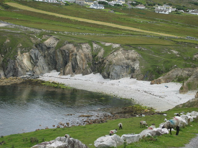 Small beach at the eastern end of Ashleam Bay View from Atlantic Drive of the small beach at the extreme eastern end of Ashleam Bay